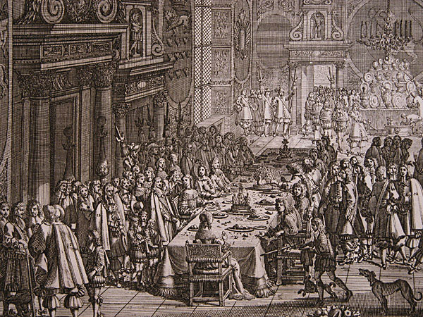 The peace banquet (Fredstaffelet) at Frederiksborg Castle following the signing of the Treaty of Roskilde in 1658.